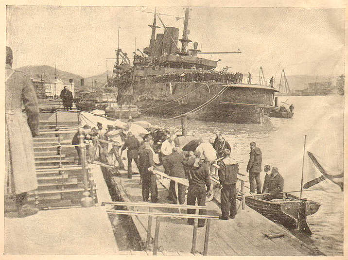 Port Arthur, China (then a Russian colony and fortress). Russo-Japanese war. 31 March 1904. Russian sailors retrieve bodies of men killed on board the Petropavlovsk. Half-sunken battleship Pobeda